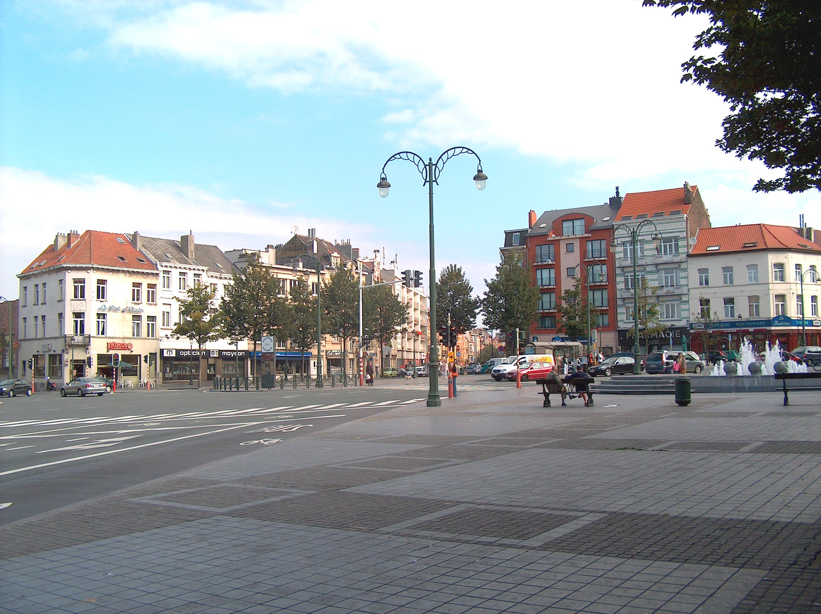 Bruxelles, Schaerbeek, place Dailly